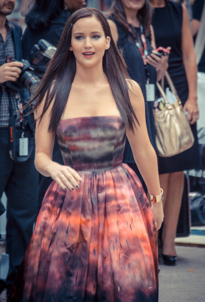 Jennifer Lawrence walking about at the "Silver Linings Playbook" premiere at the 2012 Toronto International Film Festival